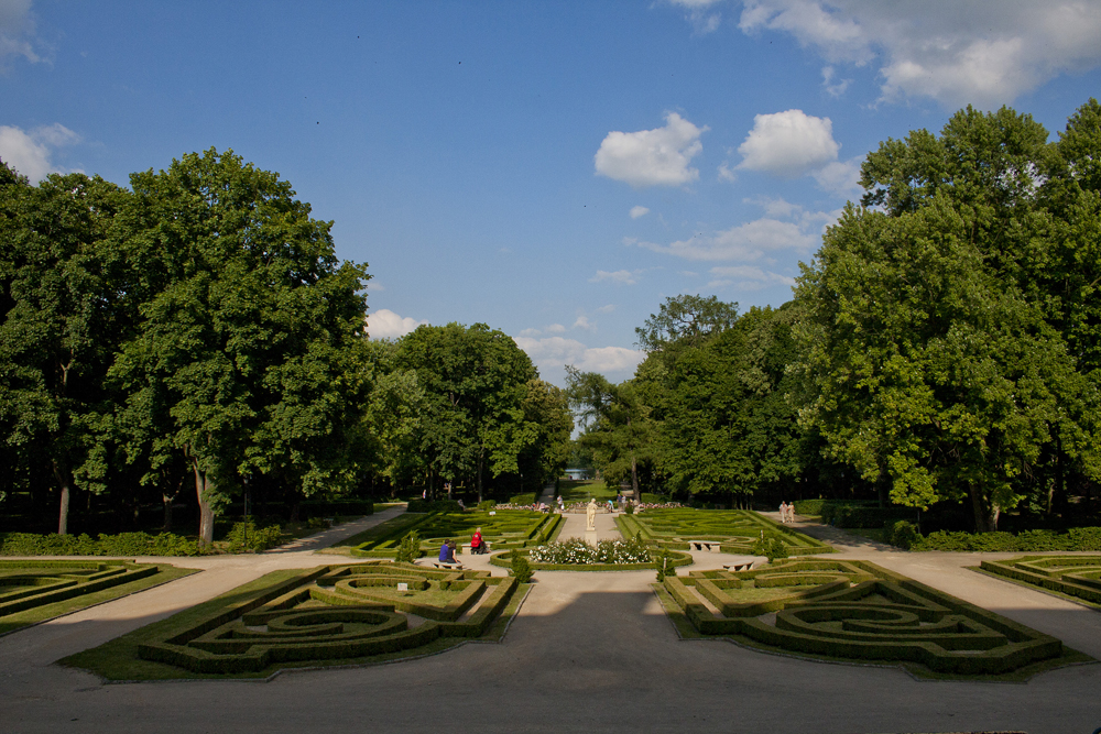 Widok na ogrody palacowe